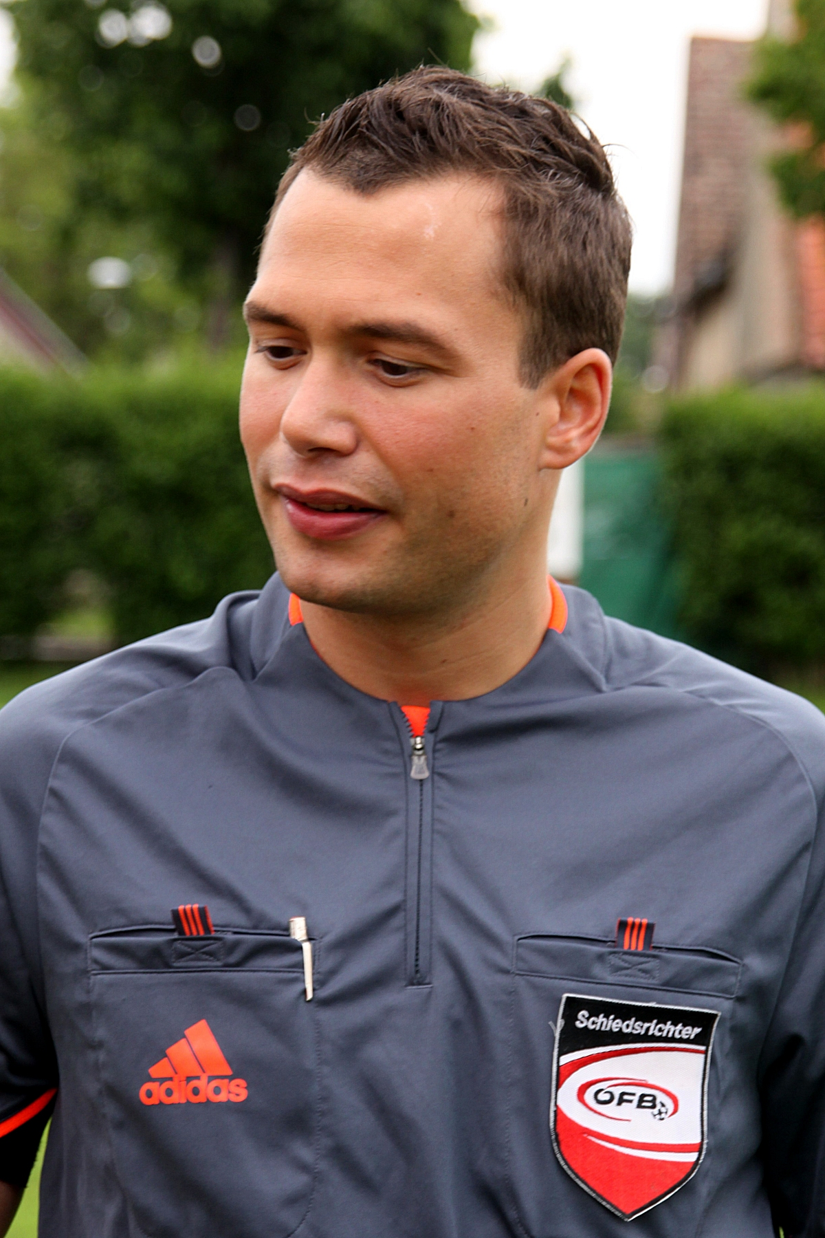 Harald Ruiss, Referee of Austria